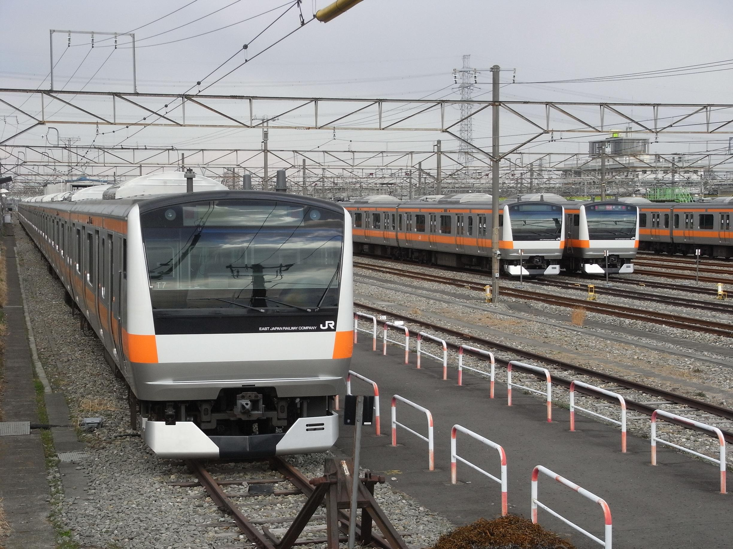 JR East Chuo Line E233 series EMUs